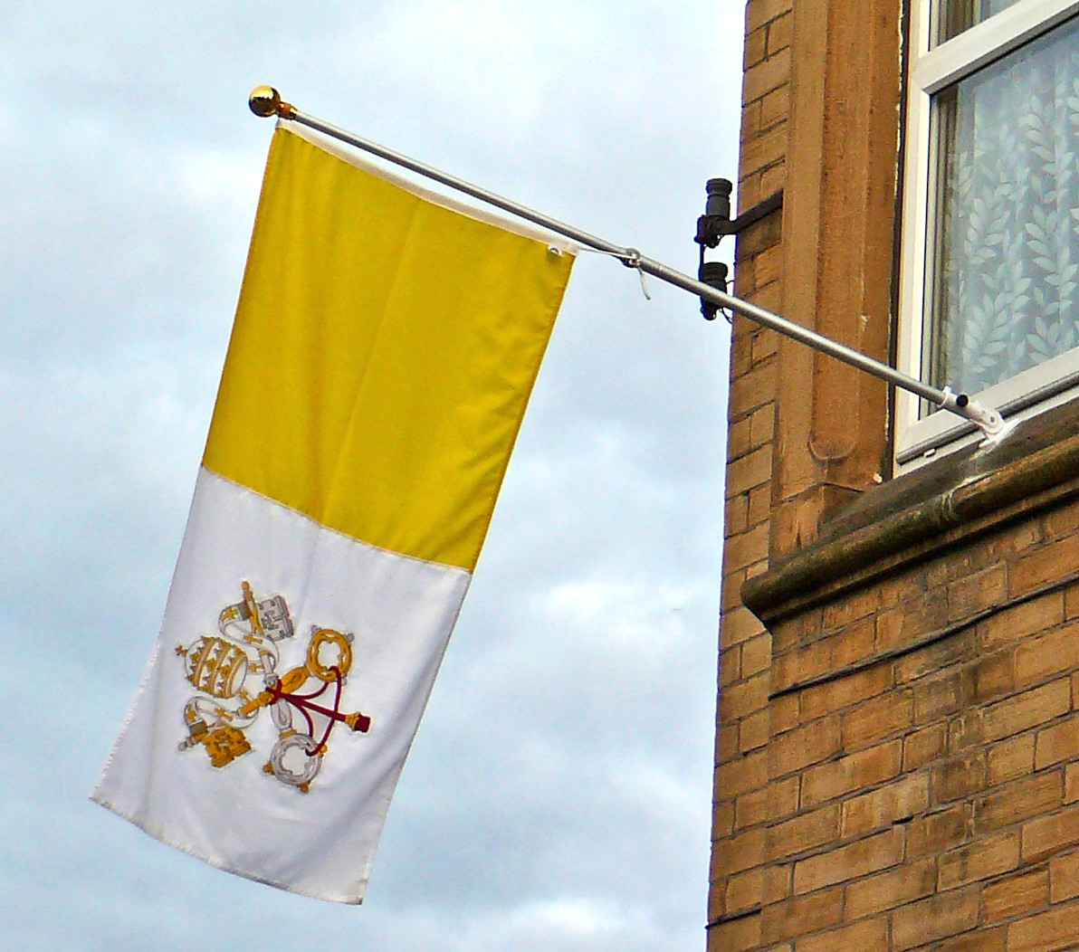 The flag of the Vatican City flying from the Catholic Chaplaincy on Great Horton Road, Bradford, West Yorkshire during the controversial visit of the pope to the United Kingdom. Taken on the Tuesday the 21st of September 2010.